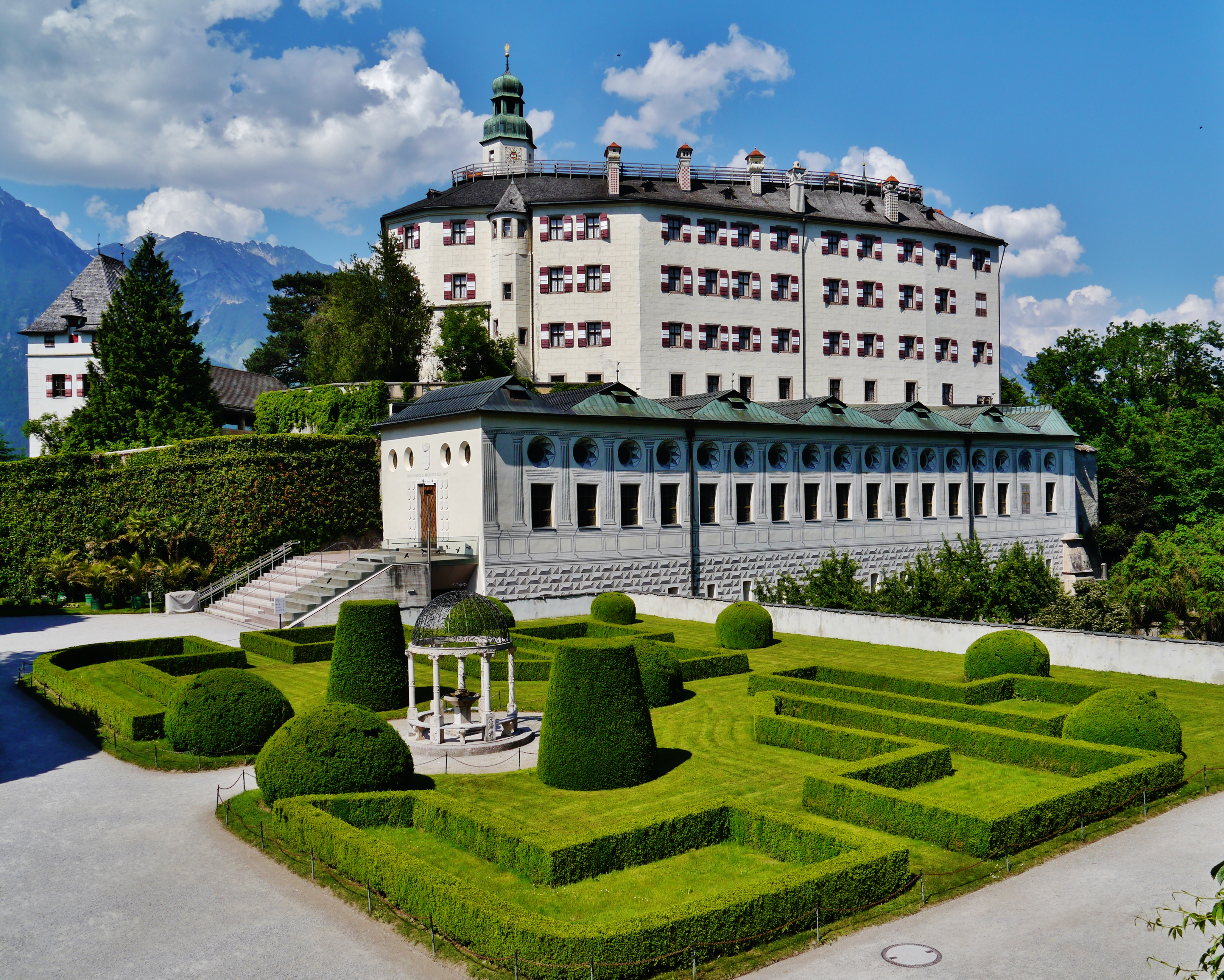 High Castle/Palas and Garden of Ambras Castle, Innsbruck, Tyrol, Austria